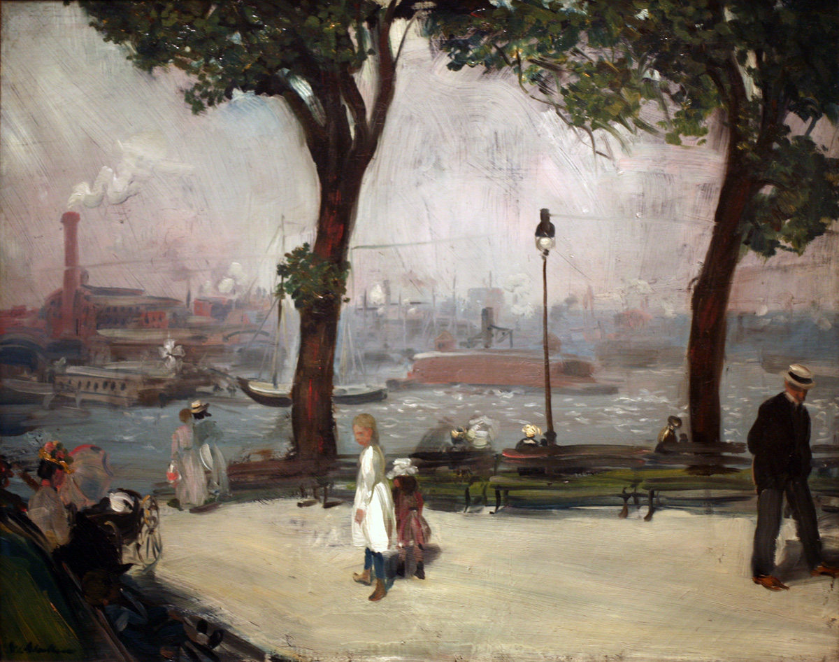 William Glackens (American, 1870-1938). East River Park, ca. 1902. Oil on canvas, 25 7/8 x 32 in. (65.7 x 81.3 cm). Brooklyn Museum, Dick S. Ramsay Fund, 41.1085.